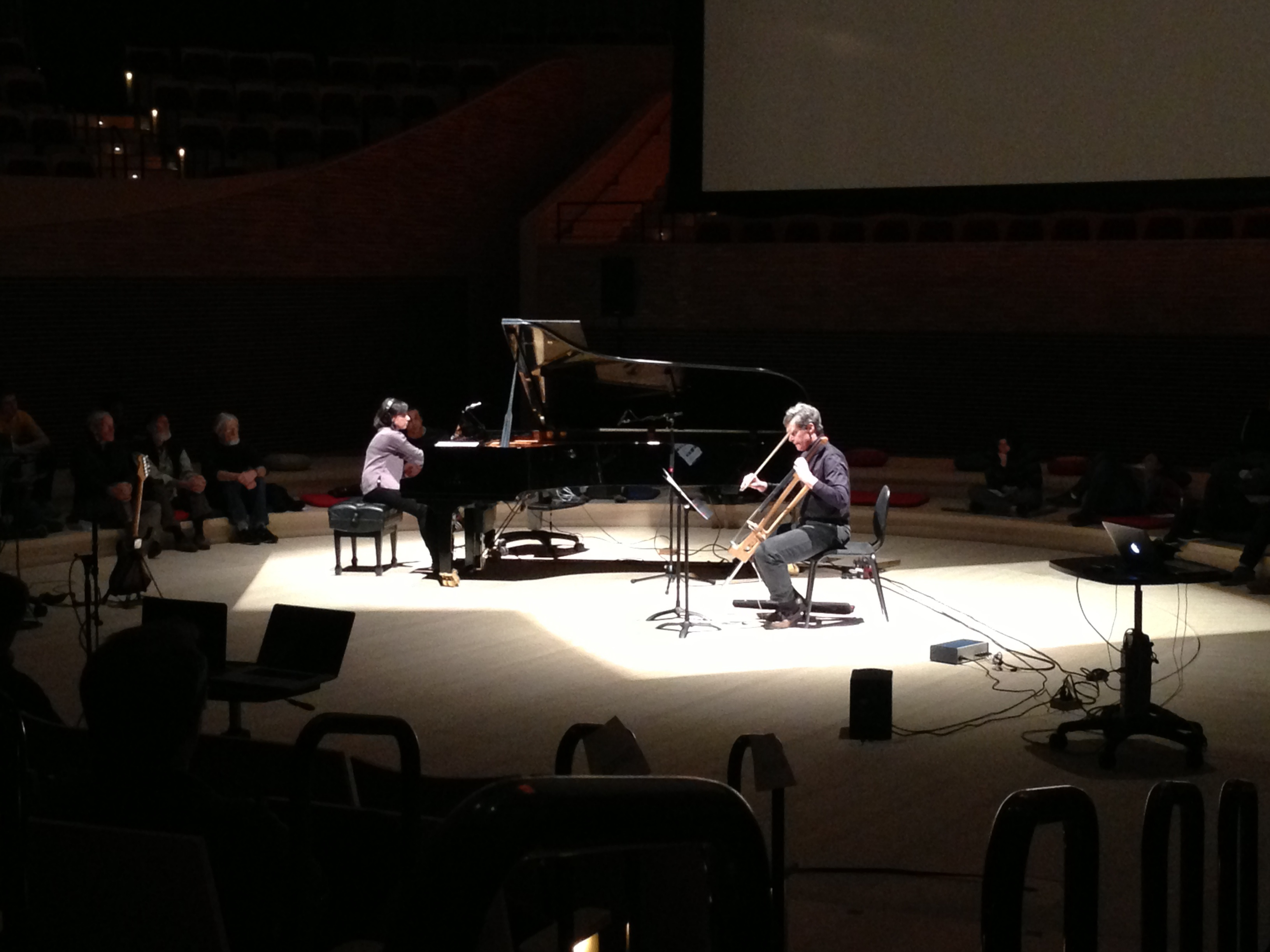 Performance of a piece by Panayiotis Kokoras at CCRMA winter concert. Chrysi Nanou (piano), Chris Chafe (celletto), Rob Hamilton (offstage, electronics). CCRMA 'Sonic Bing' winter concert 02013, Stanford.